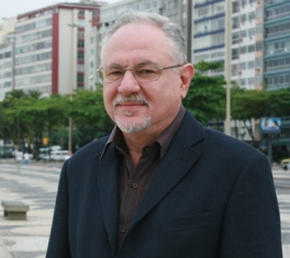 Bernardo Sorj - Forte do Leme, Rio de Janeiro